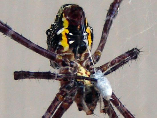 A garden spider, Argiope appensa, on the Hawaiian island of Molokai wraps its prey in silk.